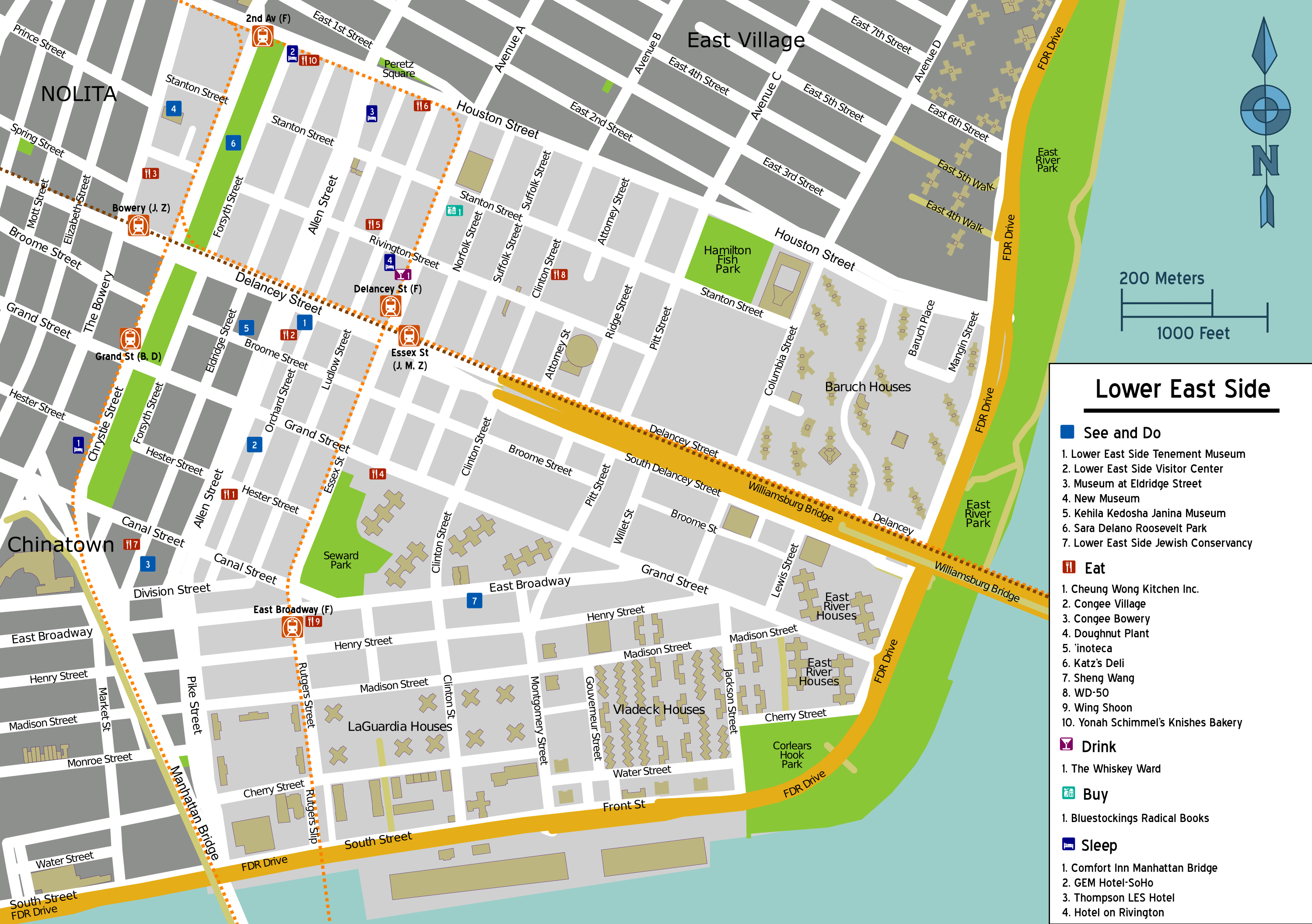 Lower East Side Map, Manhattan.